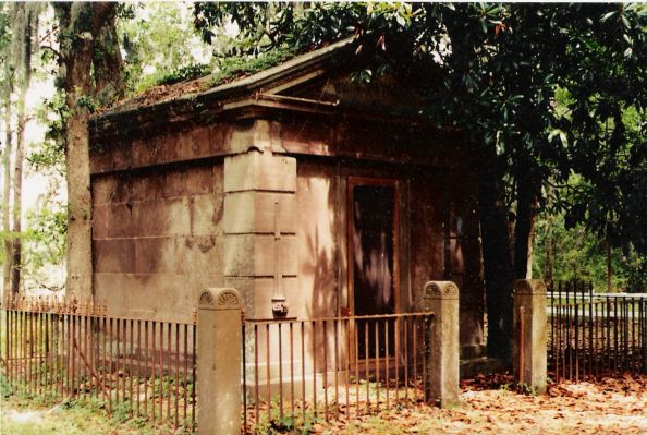 The Baynard Mausoleum, Hilton Head Island, South Carolina, United States.